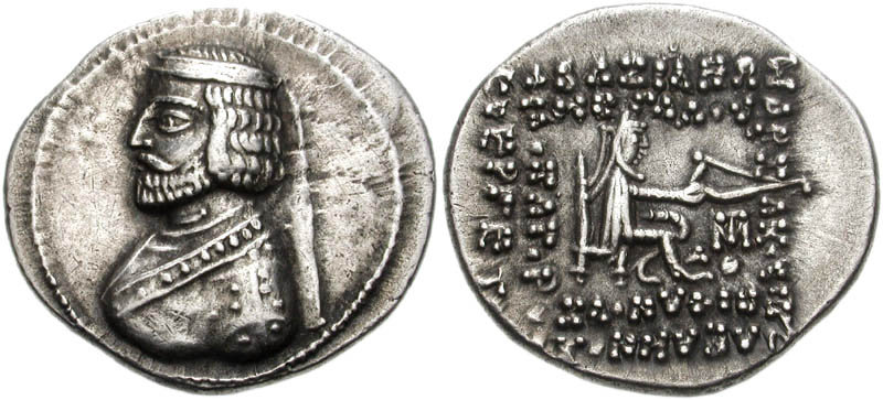 Coin of Phraates III.